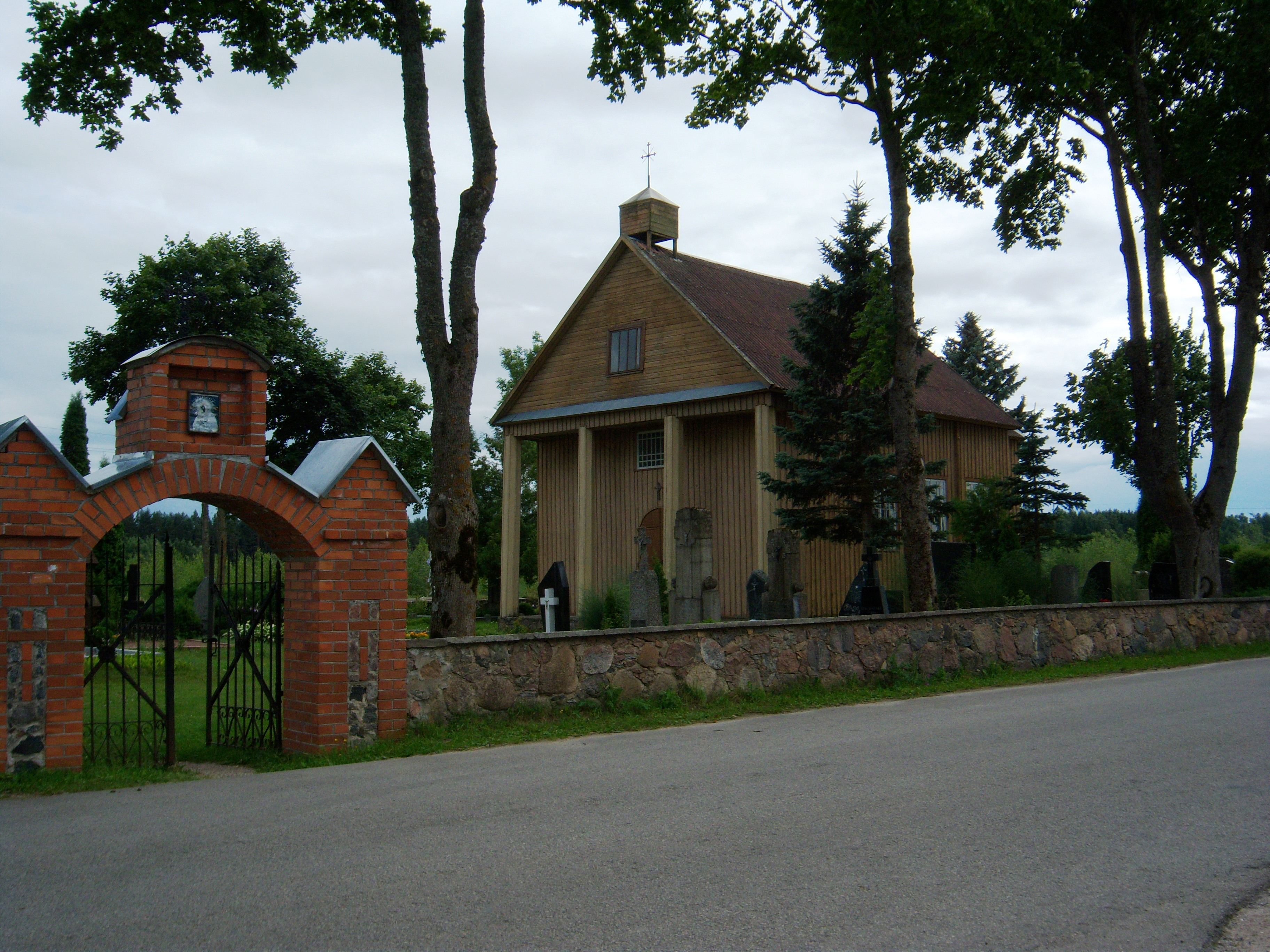 Cemetery chapel, Juostininkai, Anykščiai District. Lithuania